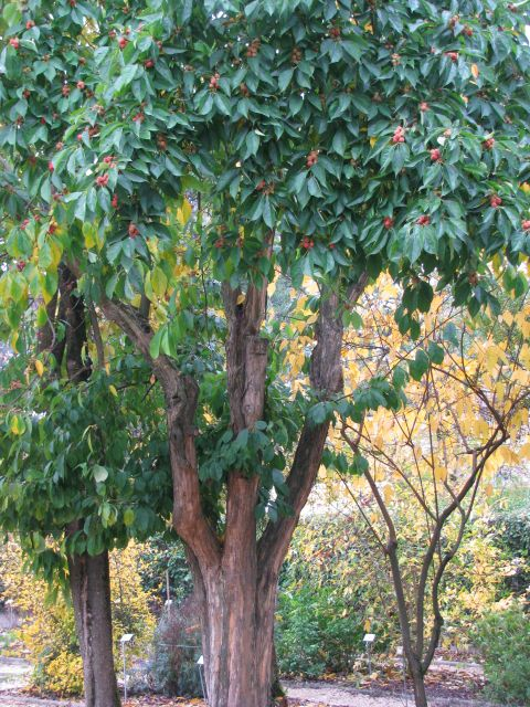 Maclura tricuspidata tree